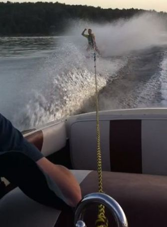 Barefoot Waterskier Michael French on Lake Ozonia behind a 1985 Ski Nautique